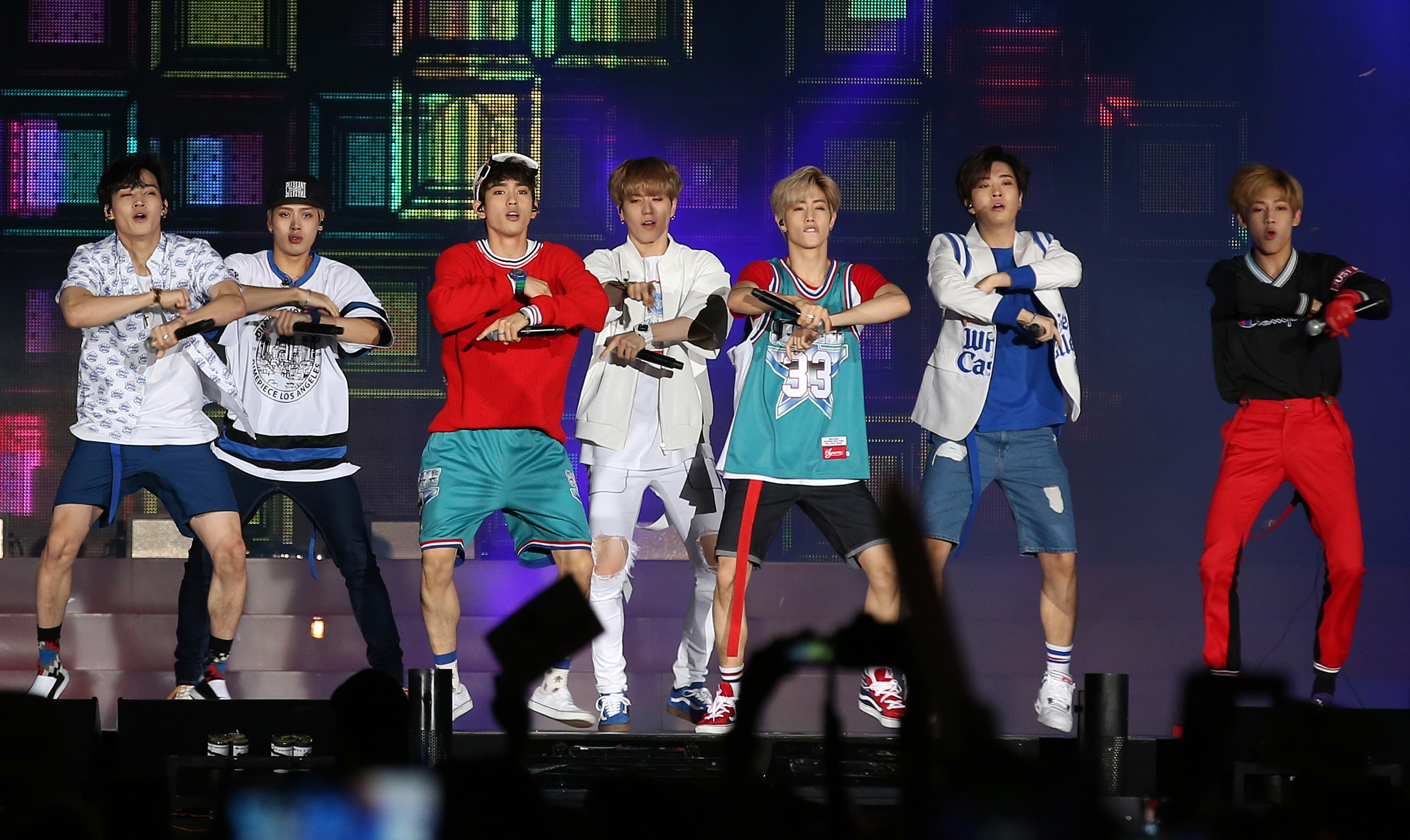 Got7 on August 4, 2015 in Seoul Plaza, Ministry of Culture, Sports and Tourism, Korean Culture and Information Service (